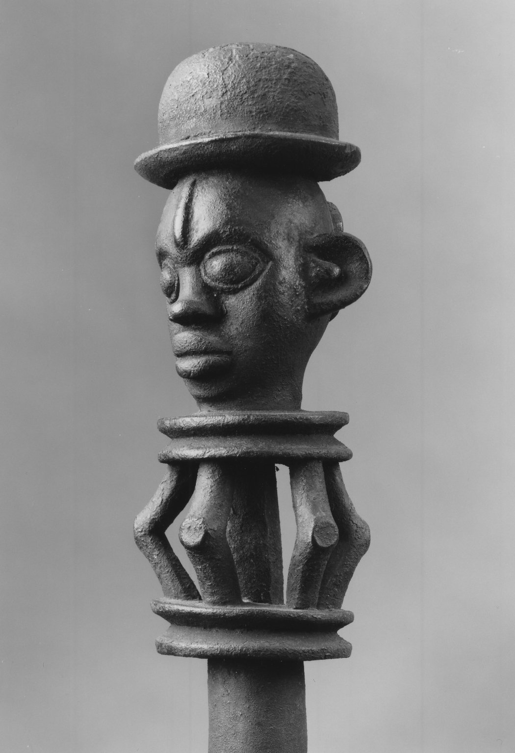 Paddle with Two Figural Carvings